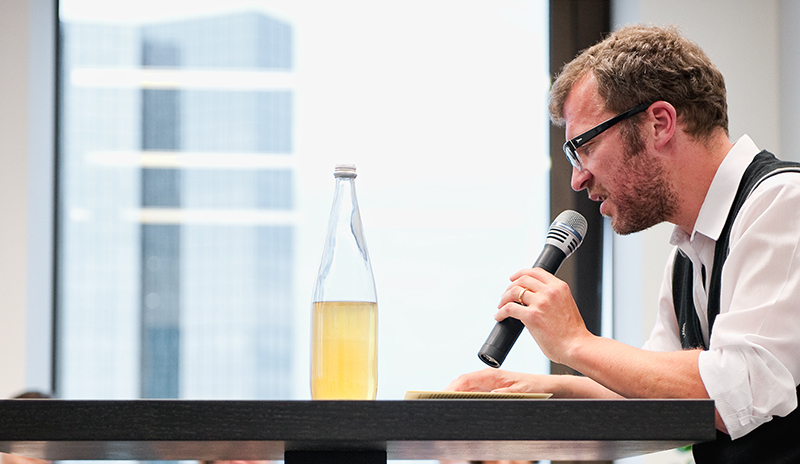 Andreas Maier, German author